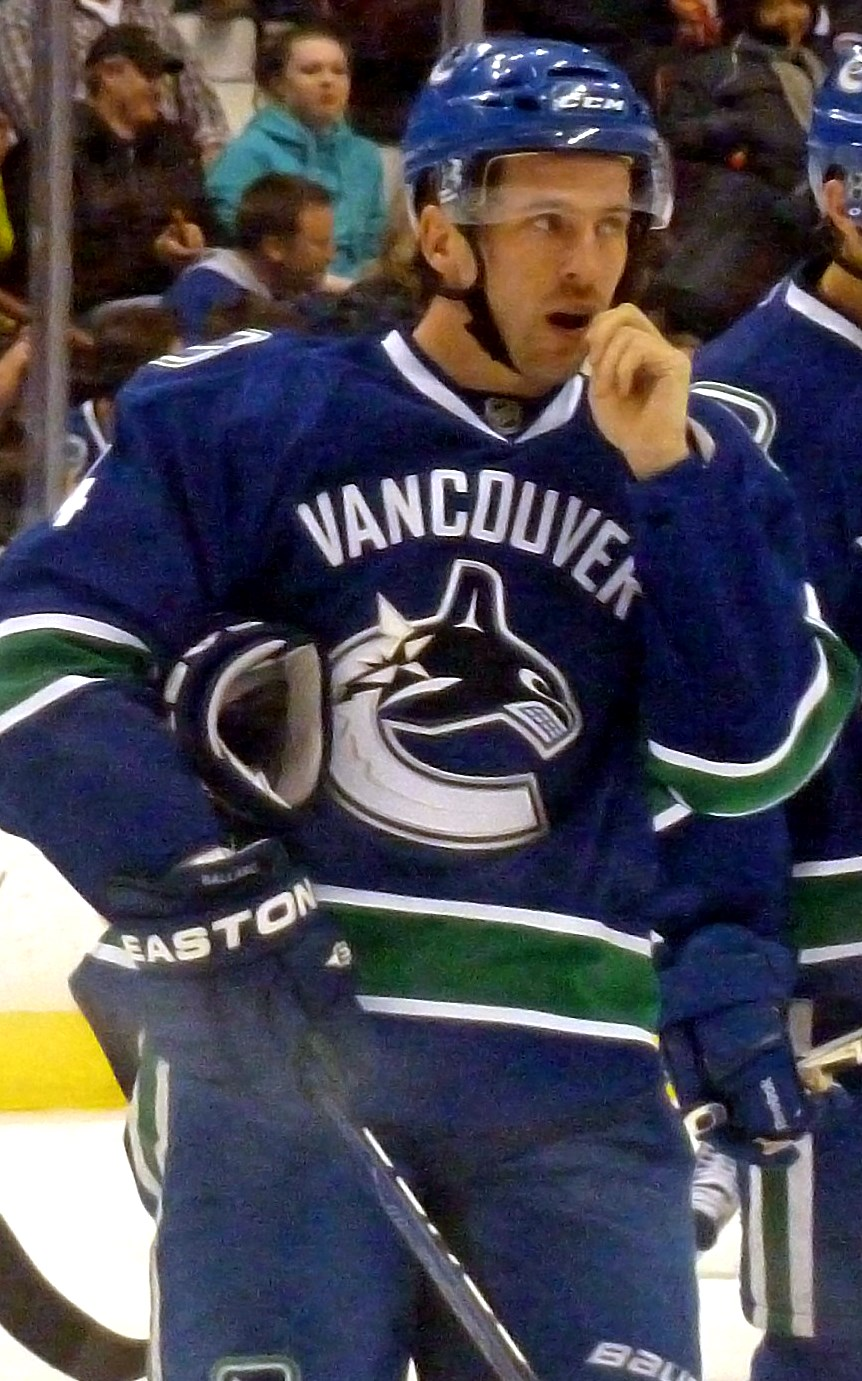 Vancouver Canucks defenseman Keith Ballard during a game against the Colorado Avalanche on March 16, 2011.